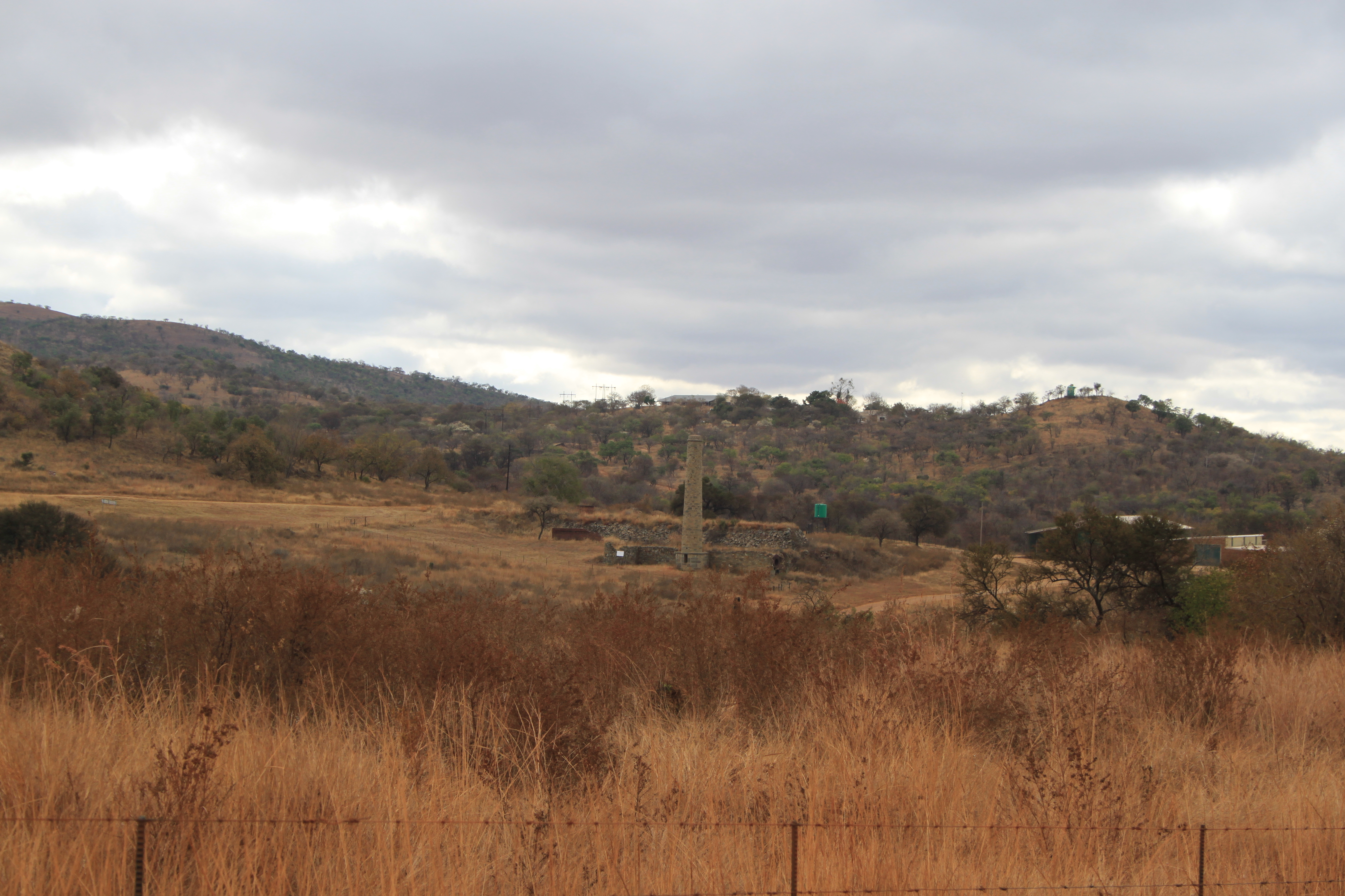 Polokwane Local Municipality, South Africa